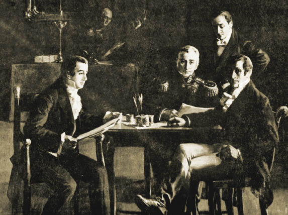 The First Assembly, first patriotic goverment of Argentina after the May Revolution